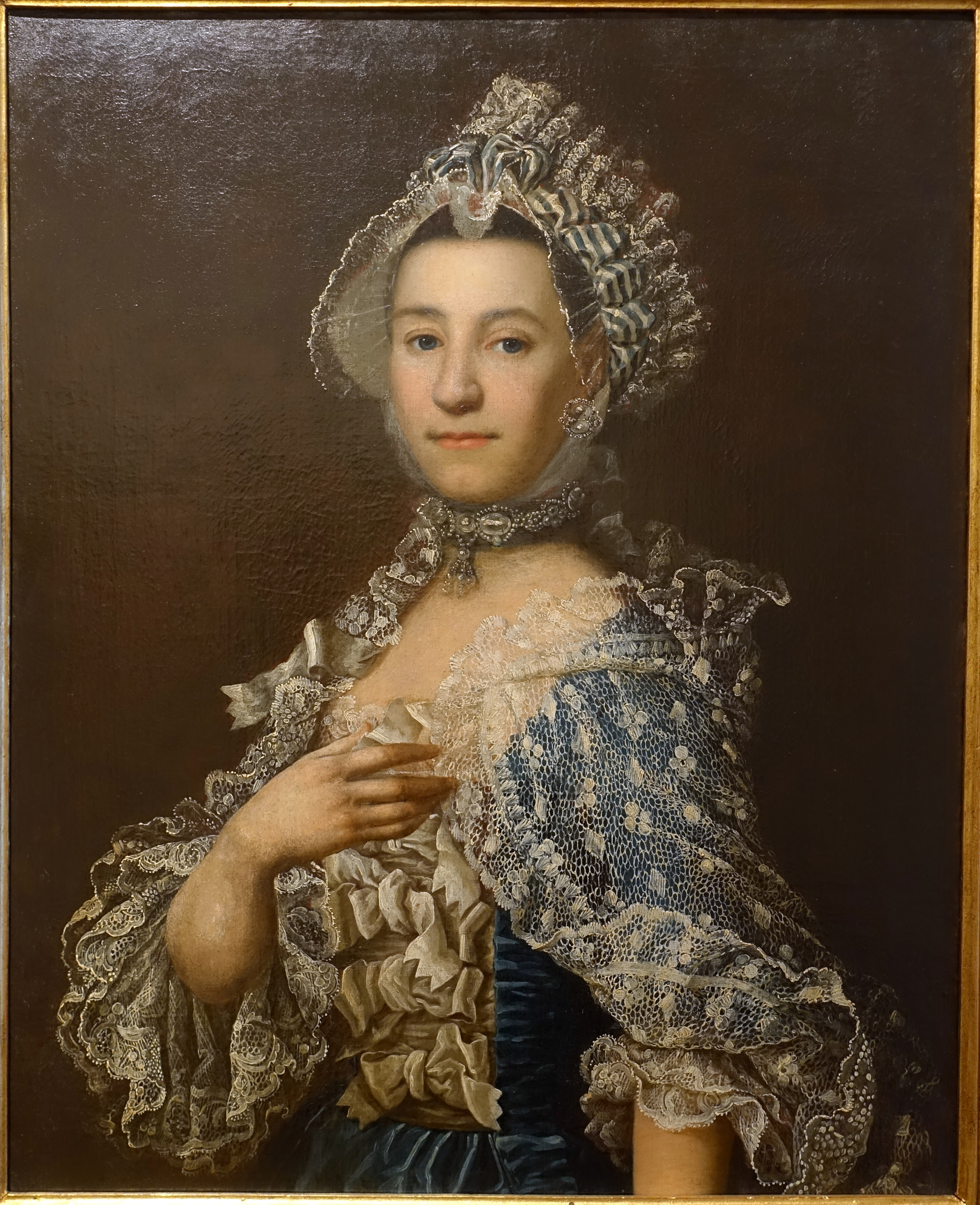 Exhibit in the Mainfränkisches Museum - Würzburg, Germany.